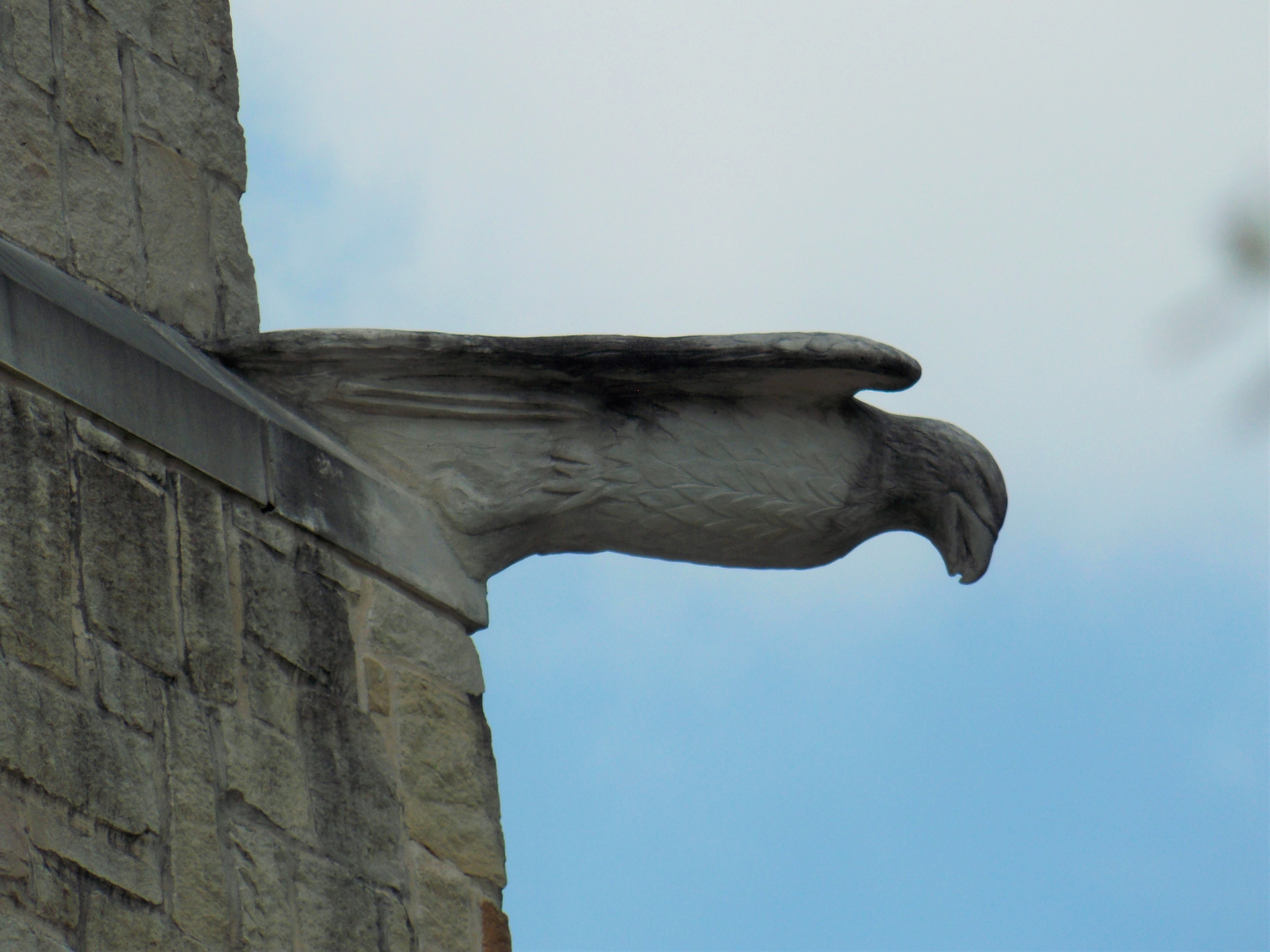 A gargoyle of the tower of Cathedral of Our Lady of Walsingham of the Personal Ordinariate of the Chair of Saint Peter in Houston, Texas.